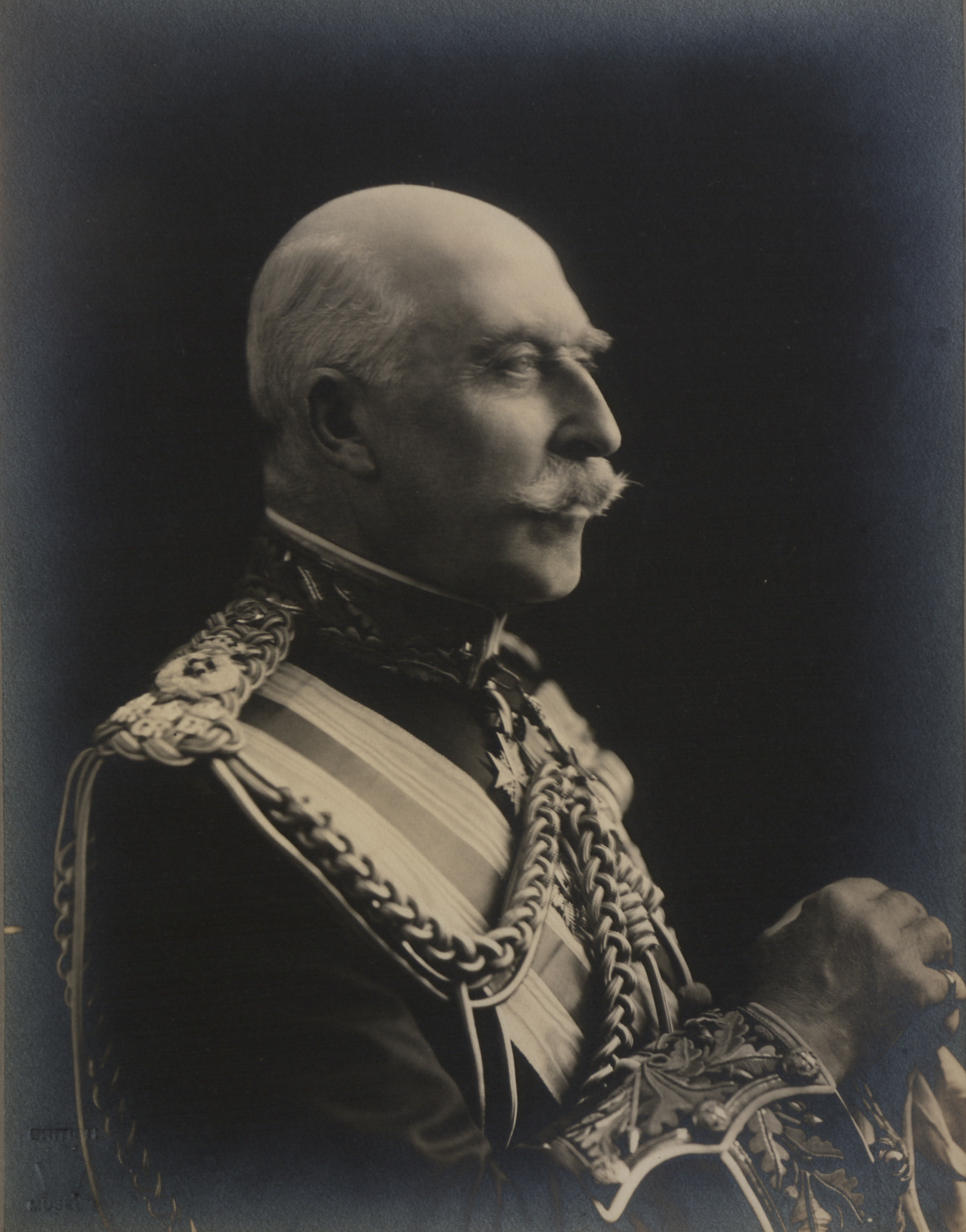 Original caption: “HRH Duke of Connaught. Photo B.”